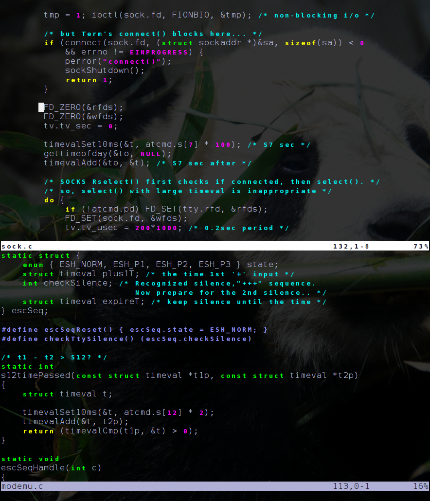 Screenshot of translucent urxvt with background derived from File:Giant Panda Tai Shan.JPG, edited code is from Modemu, released under GPLv2 license